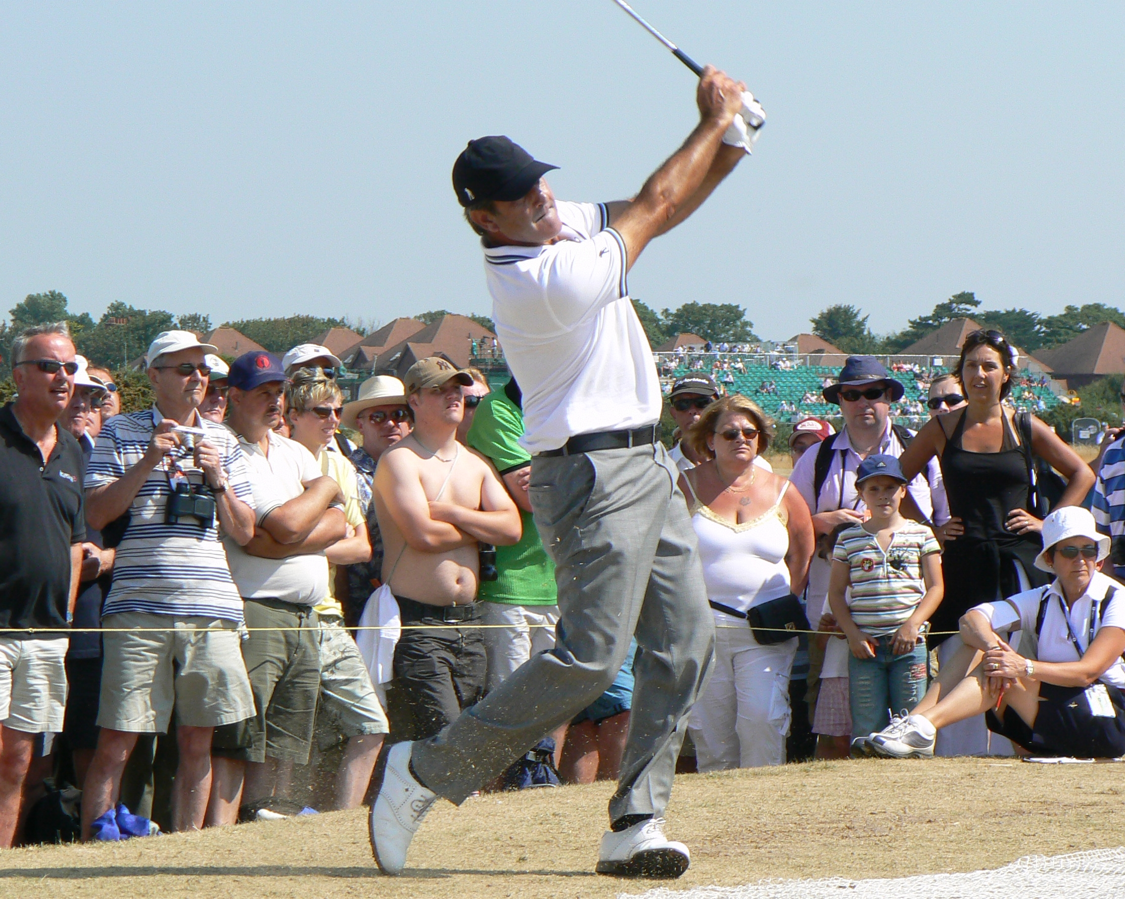 Seve Ballesteros, Spanish golfer